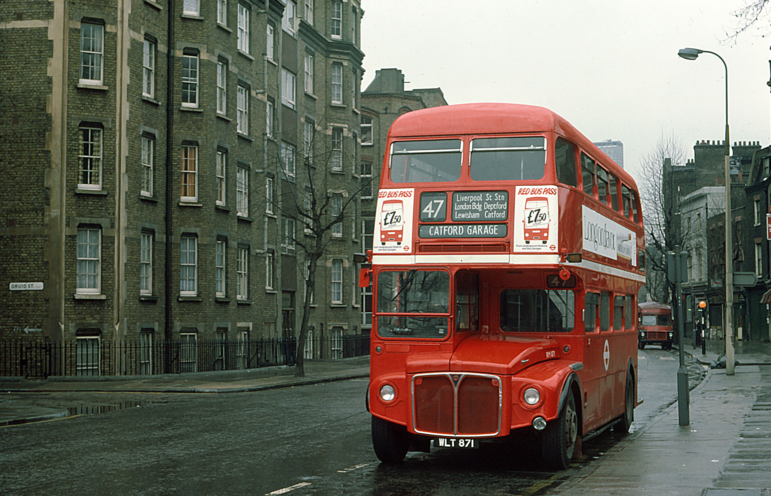 London Transport Routemaster bus RM871 (WLT 871) in Tooley Street, near to Bermondsey, Southwark, laying over on a short working of route 47. See File:Tooley Street - .uk - 2123631.jpg for this view in October 2010, where little has changed, The Shard can be seen under construction in the background, the crossing has moved forward and the bus stop has gone.